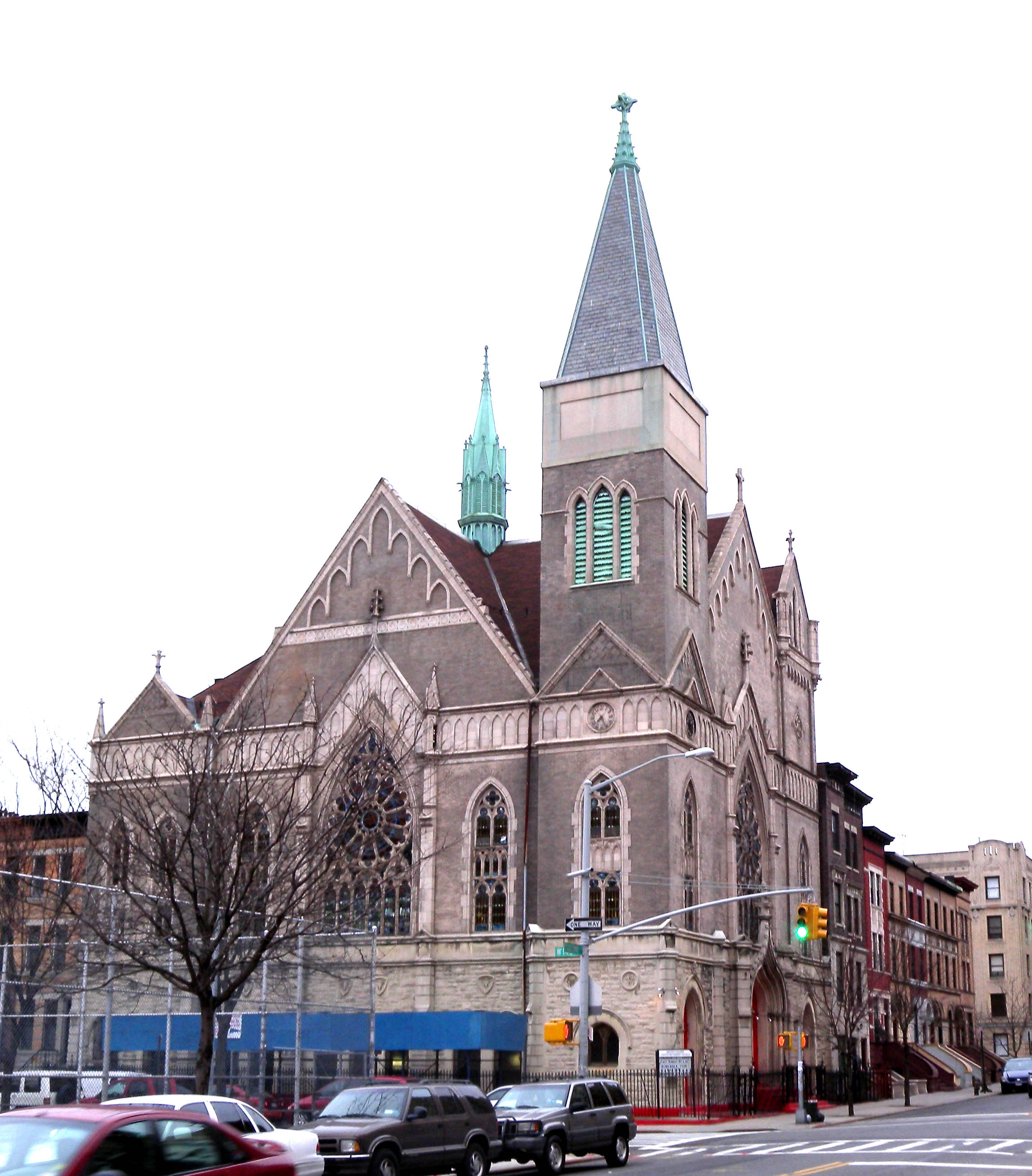 Looking south across Edgecombe Avenue and 140th Street at Mt Calvary Methodist Church on a cloudy afternoon.